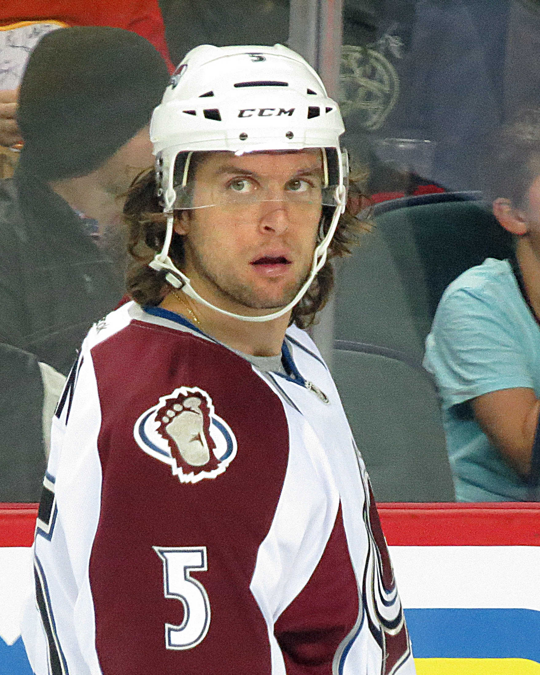 Nate Guenin of the Colorado Avalanche during the 2013–14 season.